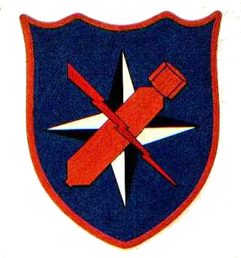 Emblem of the 340th Bomb Group (World War II)